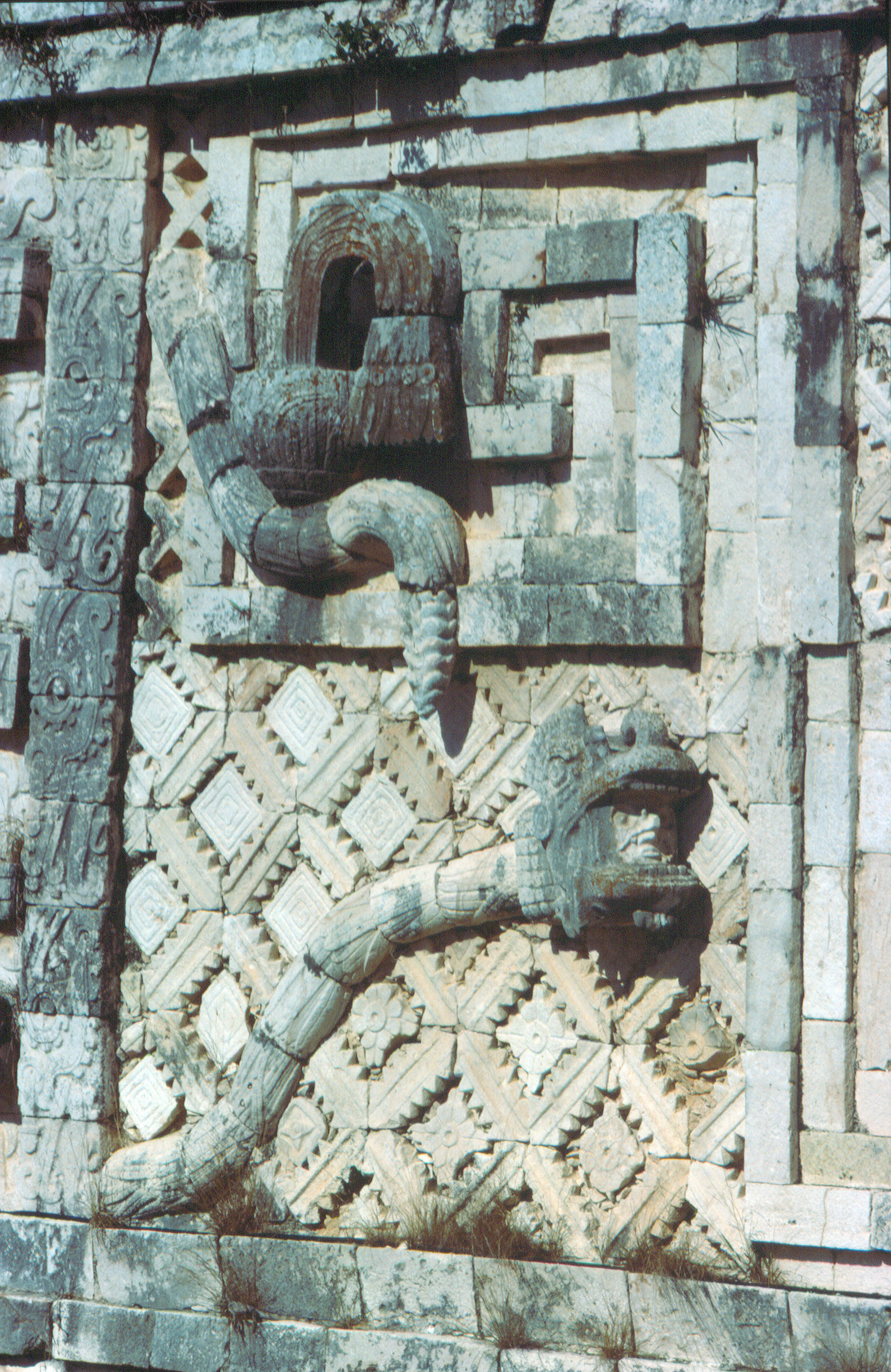 Uxmal, Nunnery, Western building, detail.